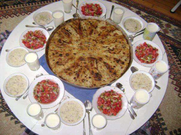 A traditional dish of Kosovian people